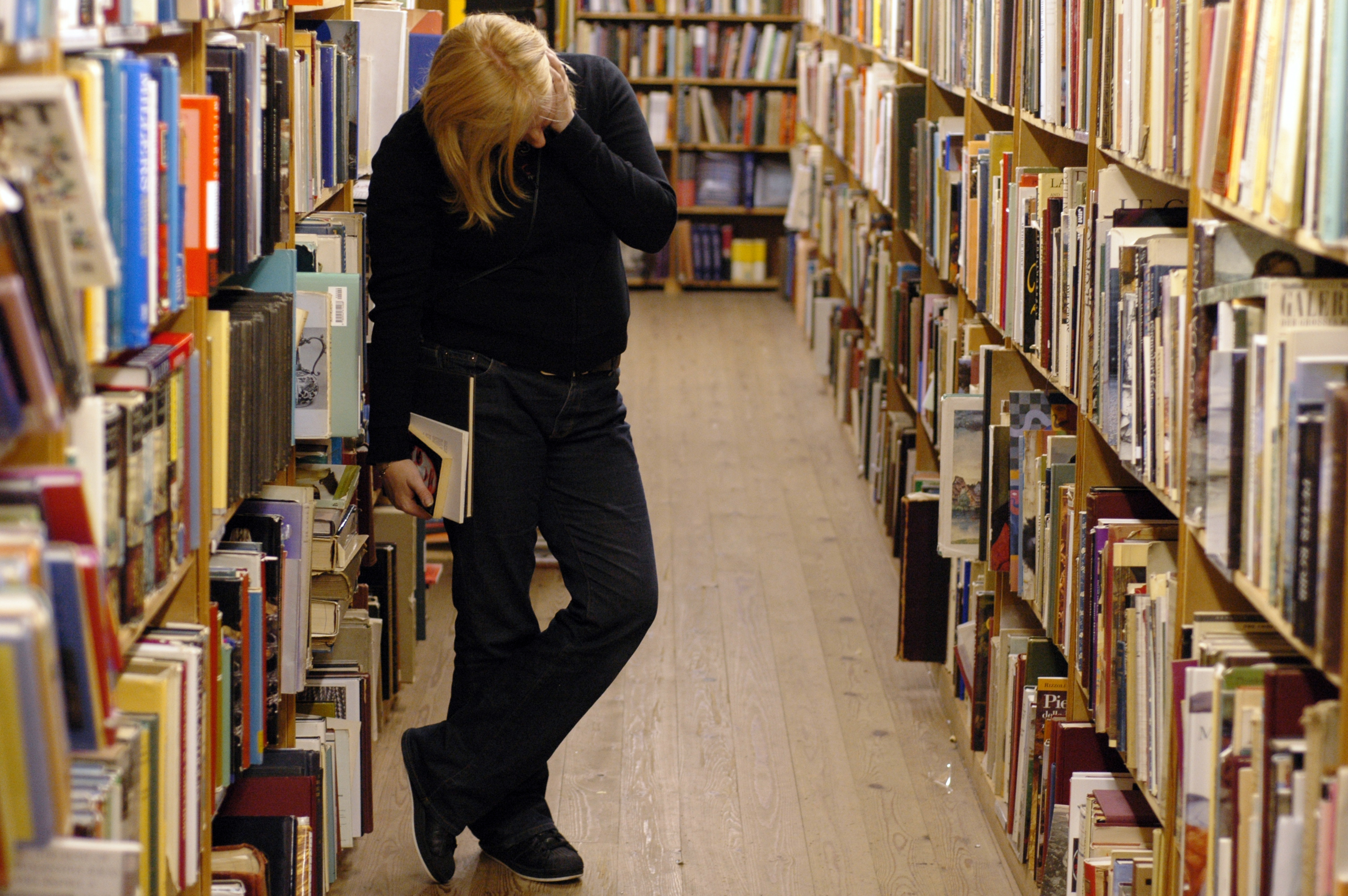 Woman browses books in an unknown library.